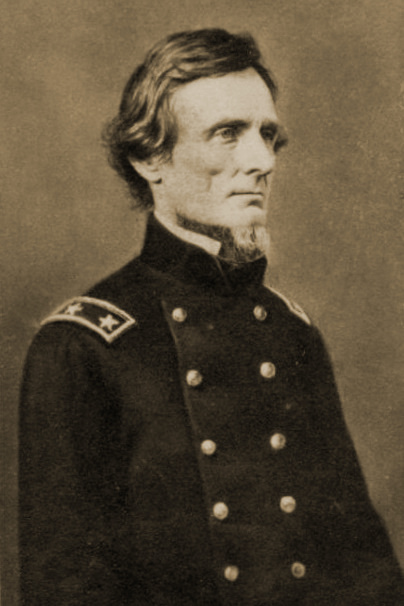 CDV of Jefferson Davis